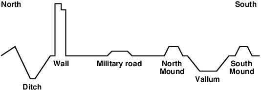 Cross section of Hadrian's Wall, following Burton, Anthony: Hadrian's Wall Path. Aurum Press Ltd, London, 2012, page 23